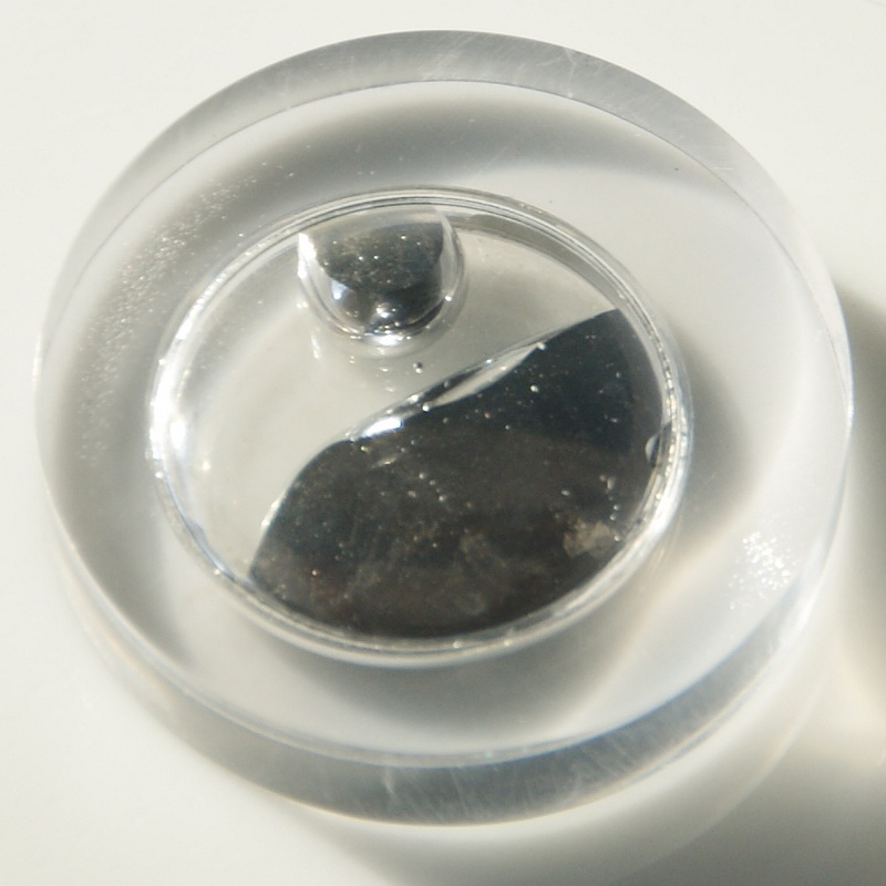 Mercury (latin hydrargyrum = liquid silver) is shiny and silvery and the only metal that is liquid at room temperature. It is known since ancient times, when it was believed to be something magical and a cure. It was used for various obscure things, like for decoration in fountains and even was drunk against constipation. More recently it was and still is used in thermometers and barometers and in amalgams as filling for our teeth. Elemental mercury is very toxic, so it should be avoided and not be used, if there are alternatives. Where mercury is released, it is a big problem for the environment. 6 grams pure mercury. Diameter of the inner disc: 2 cm.